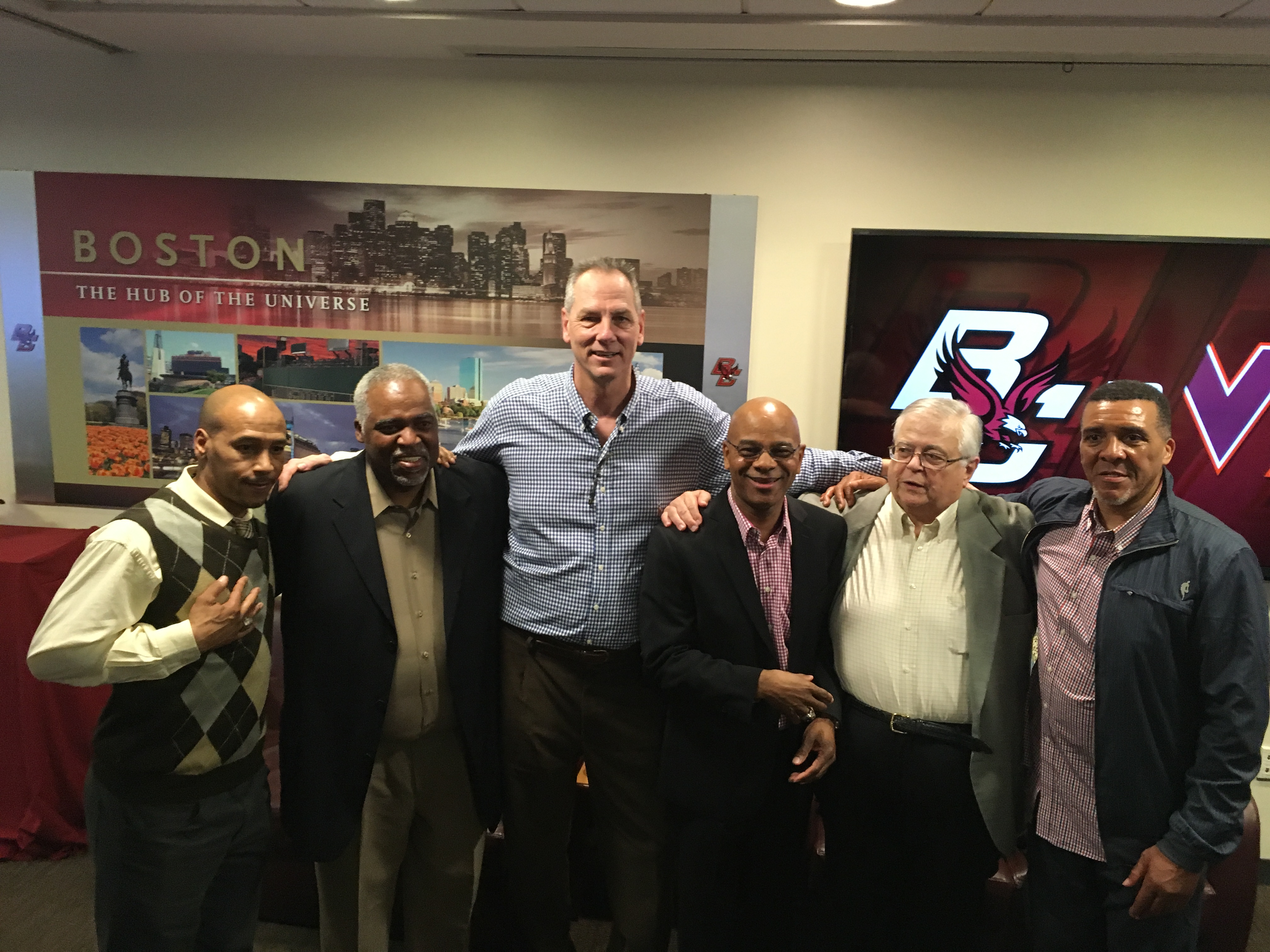 Dana Barros, John Bagley, Jay Murphy, Michael Adams, BC Superagent Frank Catapano, and Dwan Chandler